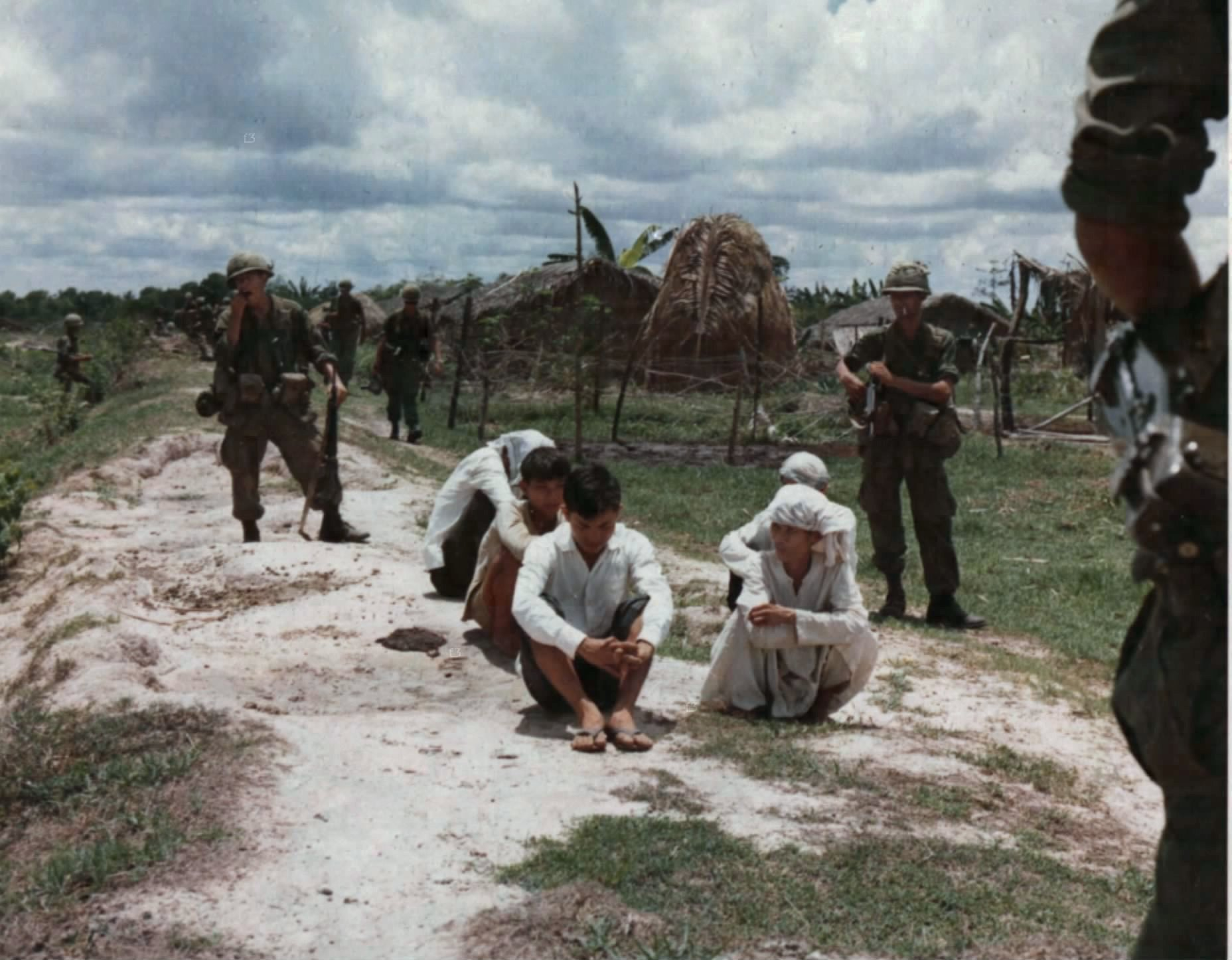 Operation Fairfax, a search and seizure mission conducted in the surrounding area of Saigon by elements of the 199th Light Infantry Brigade (Separate). Members of Company "A", 4th Battalion, 12th Infantry prepare to move out to their base camp with a group of Viet Cong suspects captured during a search of the Village of Long Trung located approximately 8 km northeast of Saigon.